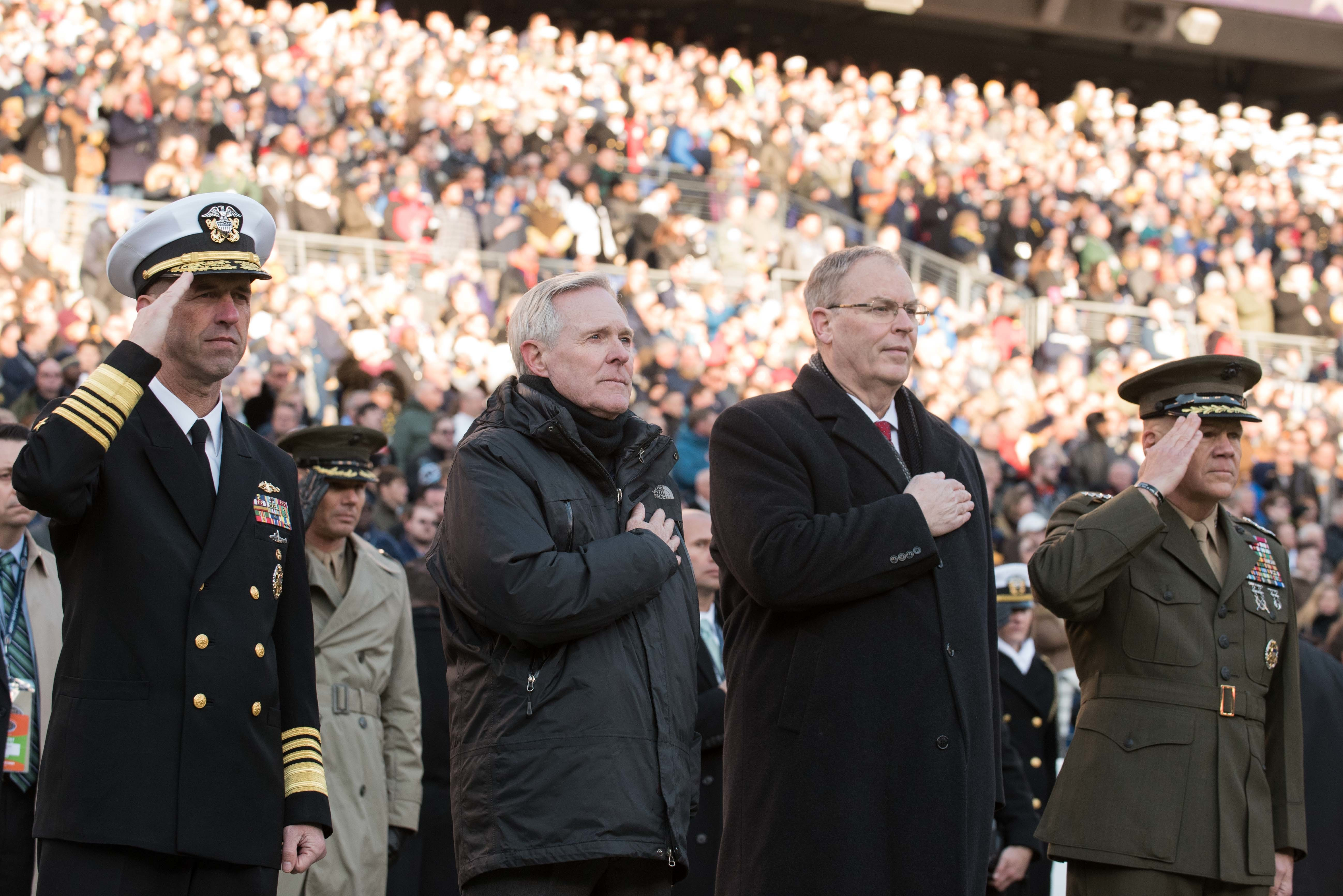 161210-N-LV331-003 BALTIMORE (Dec. 10, 2016) Chief of Naval Operations (CNO) Adm. John Richardson, Secretary of the Navy (SECNAV) Ray Mabus, Deputy Secretary of Defense, Robert Work, and Commandant of the Marine Corps Gen. Robert Neller render honors during the playing of the national anthem at the 117th Army-Navy game in Baltimore. (U.S. Navy photo by Petty Officer 1st Class Armando Gonzales/Released)